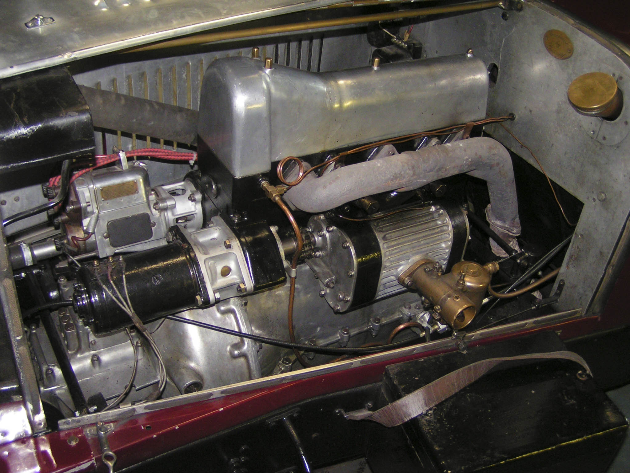 1928 Alvis Model F.D. 1275. Front wheel drive with a 1.5L supercharged engine and Tourist Trophy Race bodywork.1928 Alvis Model F.D. 12/75